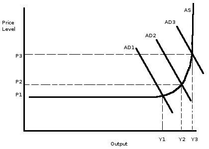 Illustrates demand-pull inflation according to Keynesian economic theory.